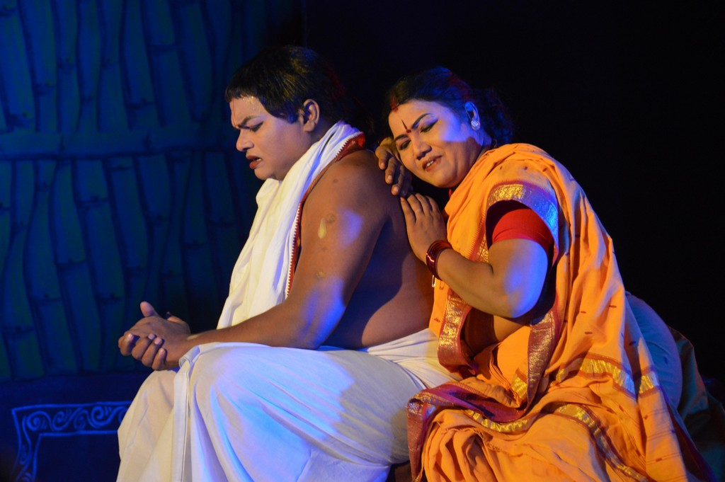 At 2013 త‌న స‌న్యాస దీక్ష విష‌య‌మై భార్య స‌ర‌స్వ‌తిని ఒప్పించు స‌న్నివేశం.